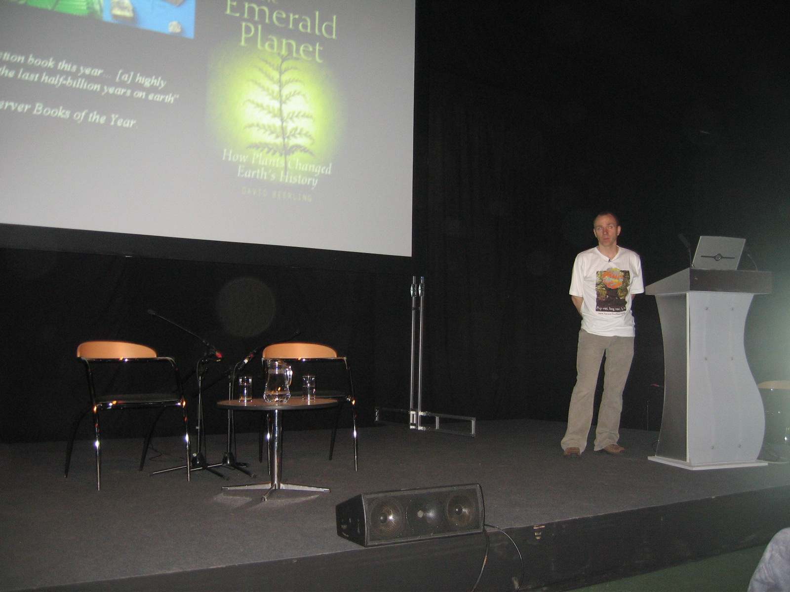 The author speaking about the Emerald Planet at the Hay-on-Wye literary festival in 2008 on behalf of the Woodland Trust